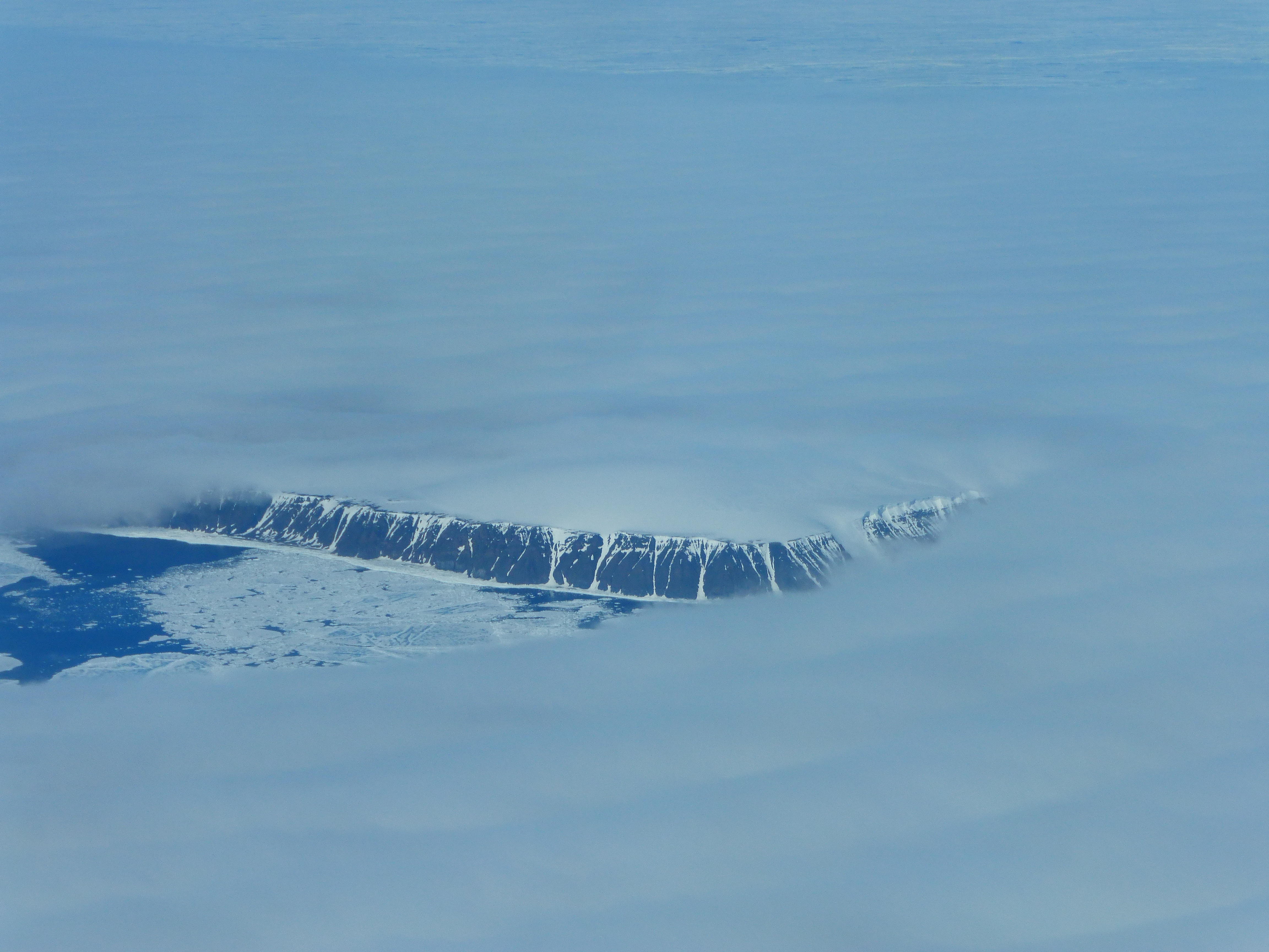 Henrietta Island from southeast. Henrietta is the northernmost island of the De Long group, Russian Arctic